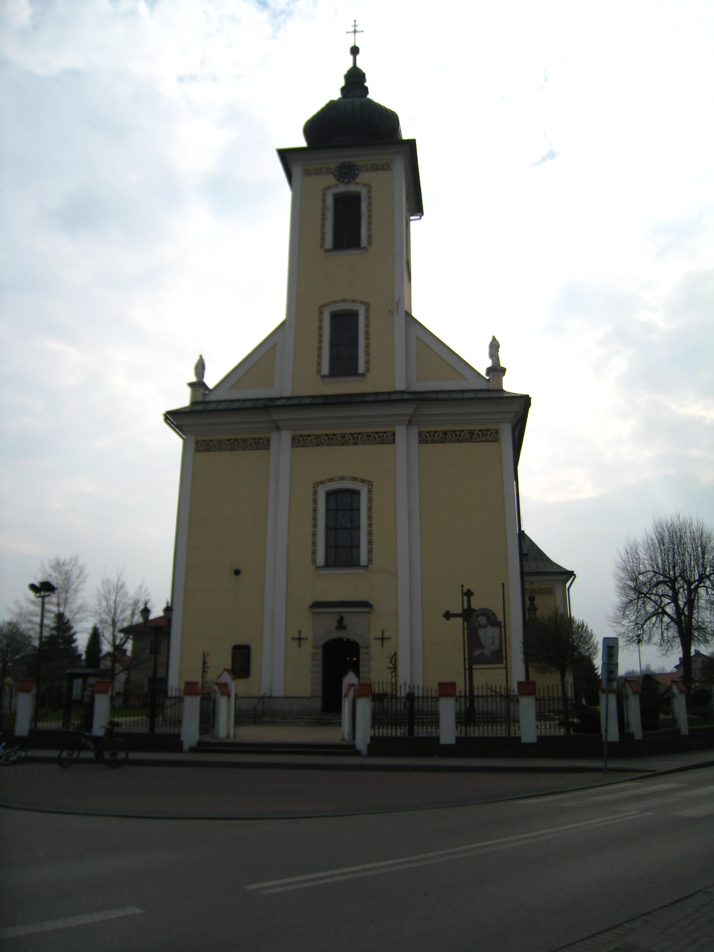 Church in Bielany village, near Auschwitz PL